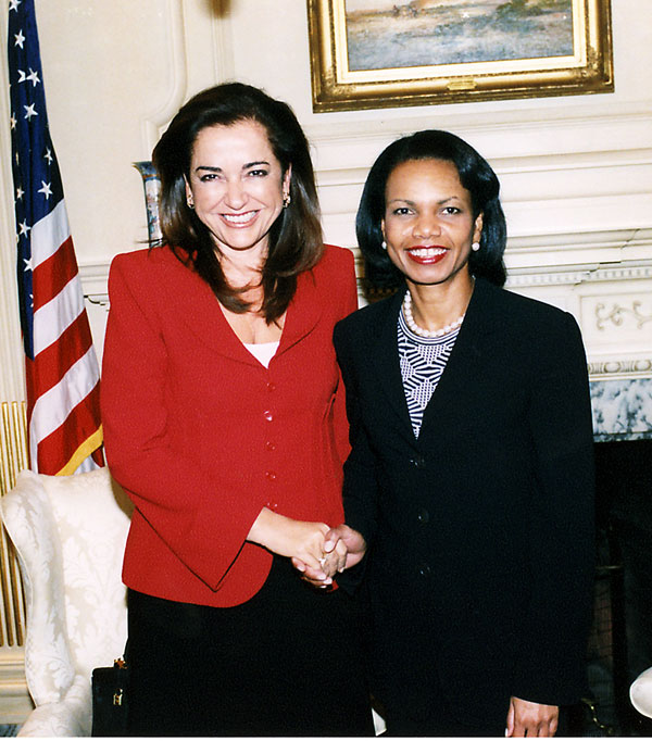 Washington, DC Secretary Rice welcomes the Greek Foreign Minister Dora Bakoyannis to the State Department. State Department photo by Michael Gross